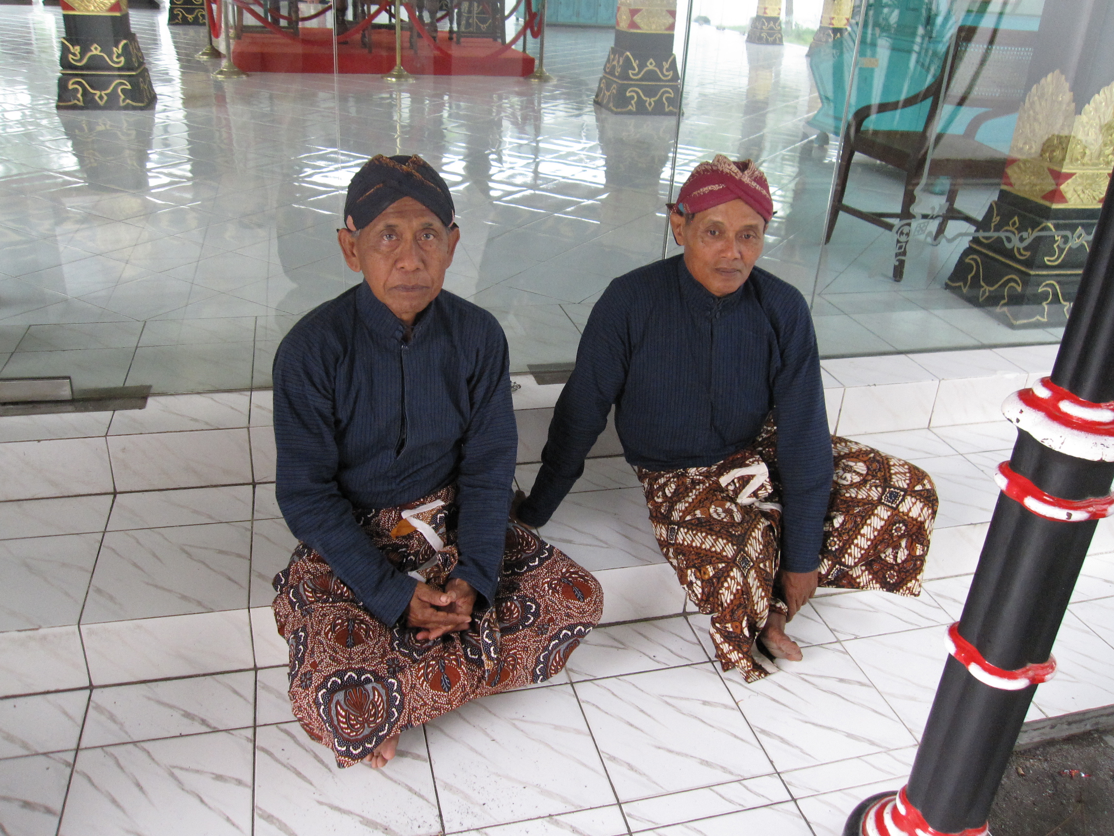 Royal staff at the Kraton of Yogyakarta, Indonesia